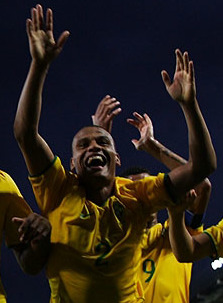 SEPTEMBER 15, 2008 - Football : Brazilian players celebrate thier victory after the Sendai Cup International Youth Football Tournament 2008 between U19 Brazil and U19 France at Yurtec Stadium Sendai on September in Miyagi, Japan. (Photo by Tsutomu Takasu)